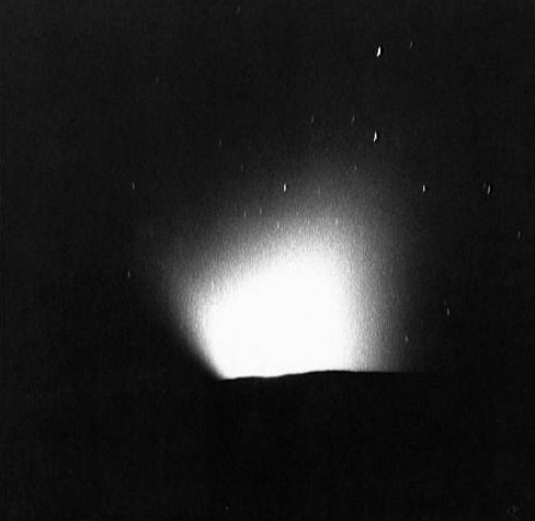 Al Worden's photo of solar corona made on July 31, 1971, during the first full day of his solo orbital operations